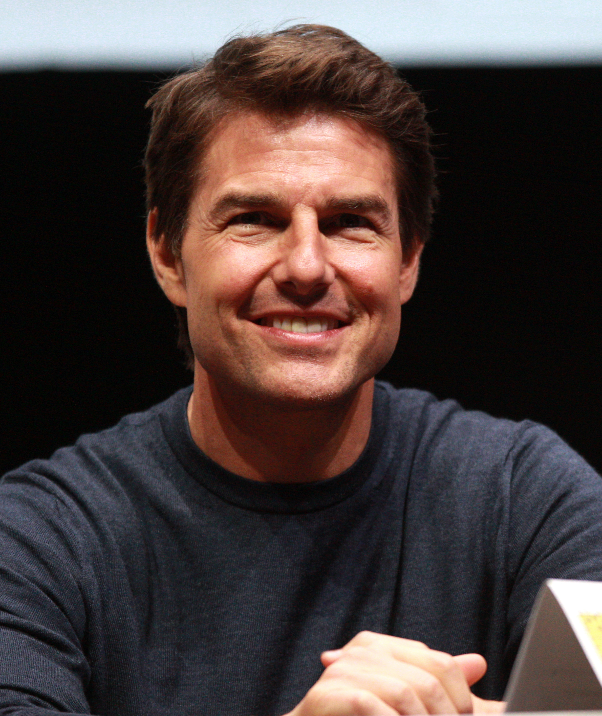 Tom Cruise at the 2013 San Diego Comic Con International in San Diego, California.